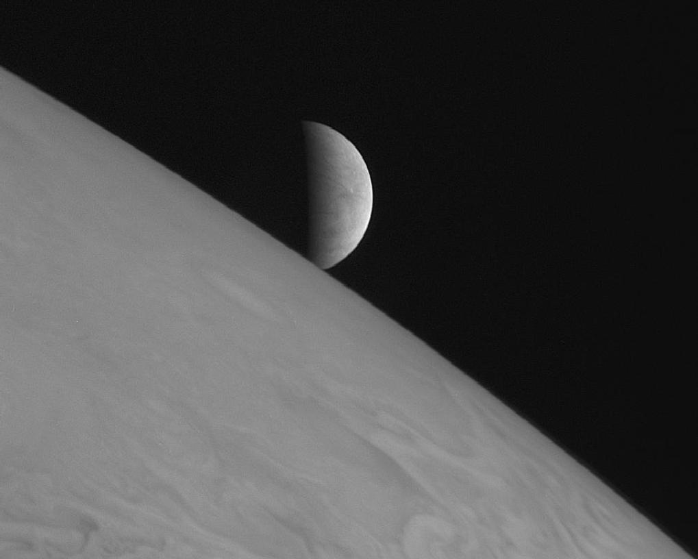 New Horizons took this image of the icy moon Europa rising above Jupiter's cloud tops after the spacecraft's closest approach to Jupiter. The spacecraft was 2.3 million kilometers (1.4 million miles) from Jupiter and 3 million kilometers (1.8 million miles) from Europa when the picture was taken.